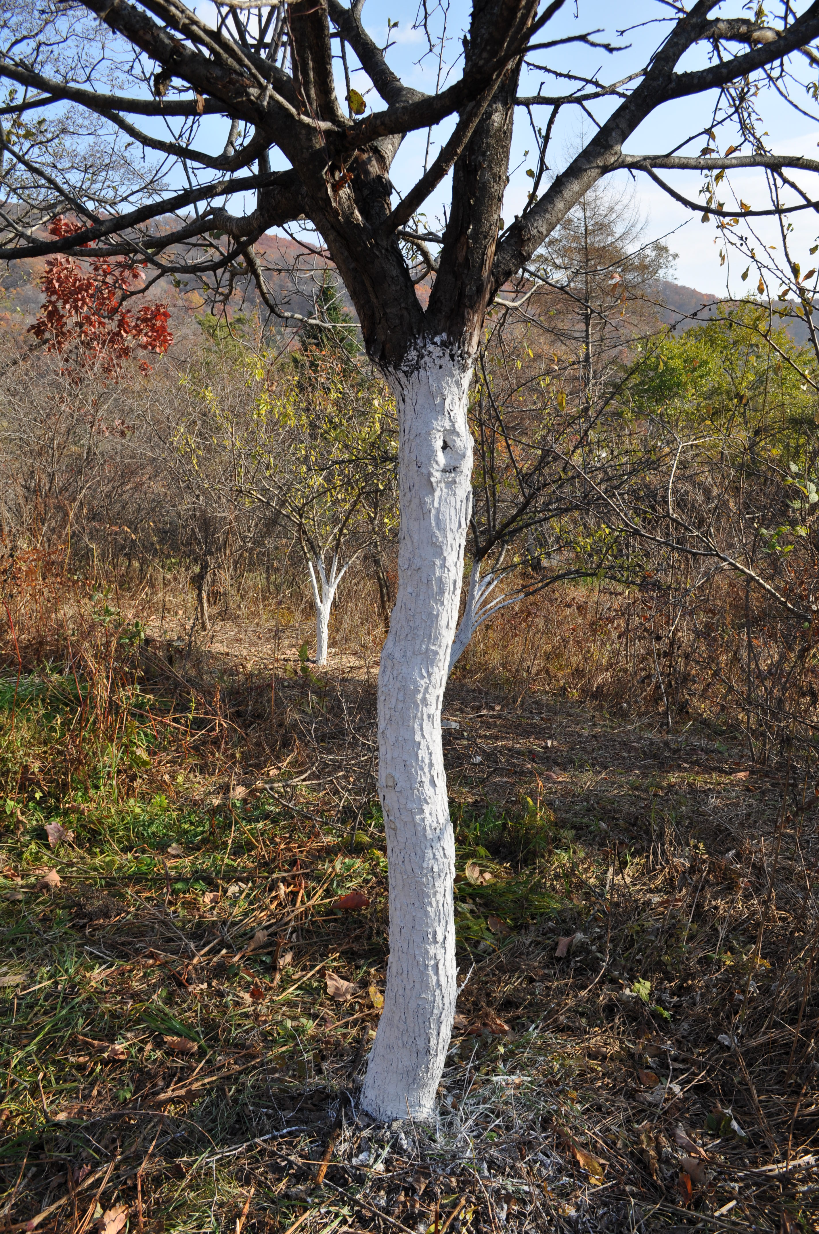 Trunk of Cherry-tree